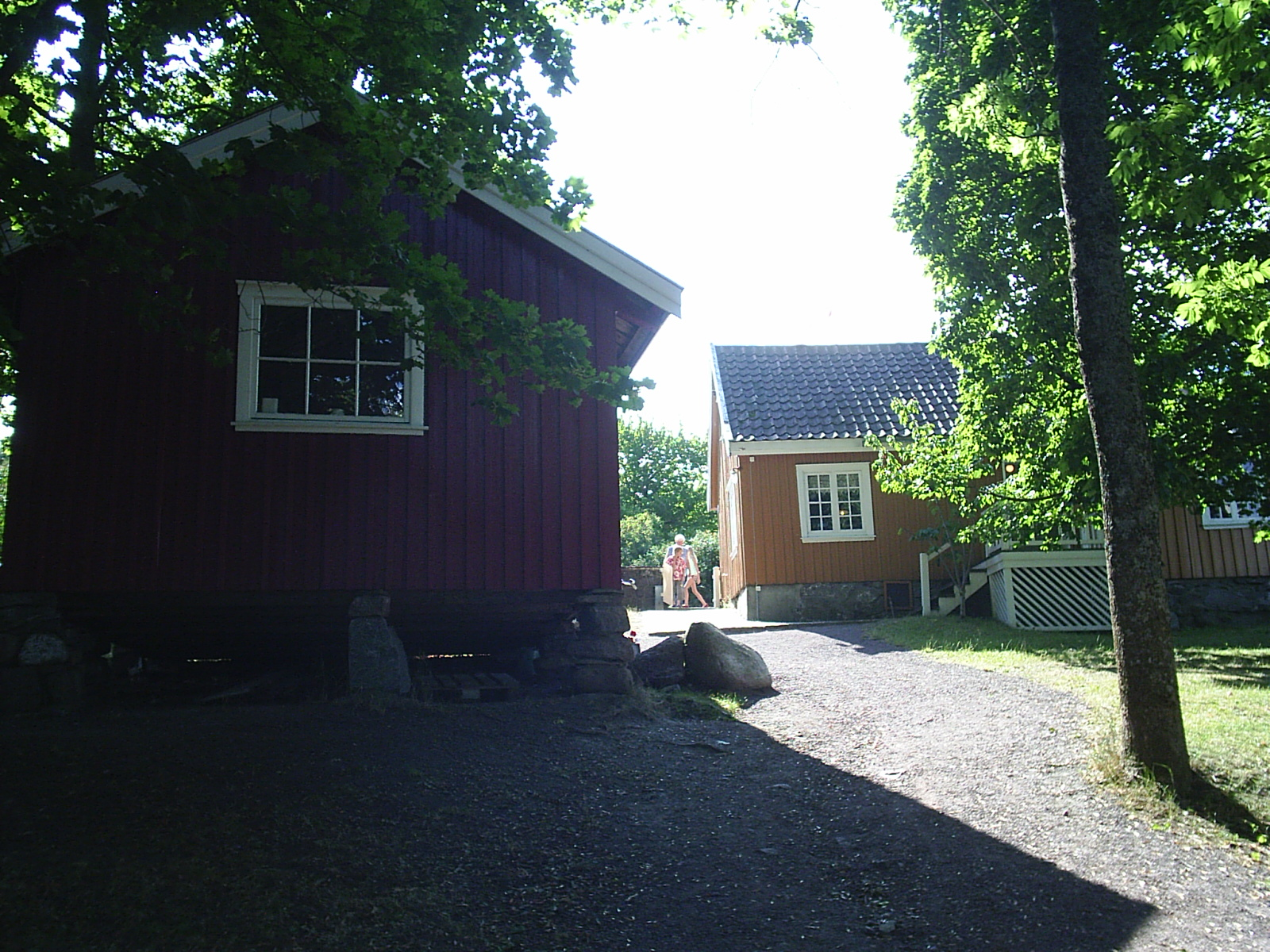 Edvard Munch's house and atelier in Åsgårdstrand, Norway